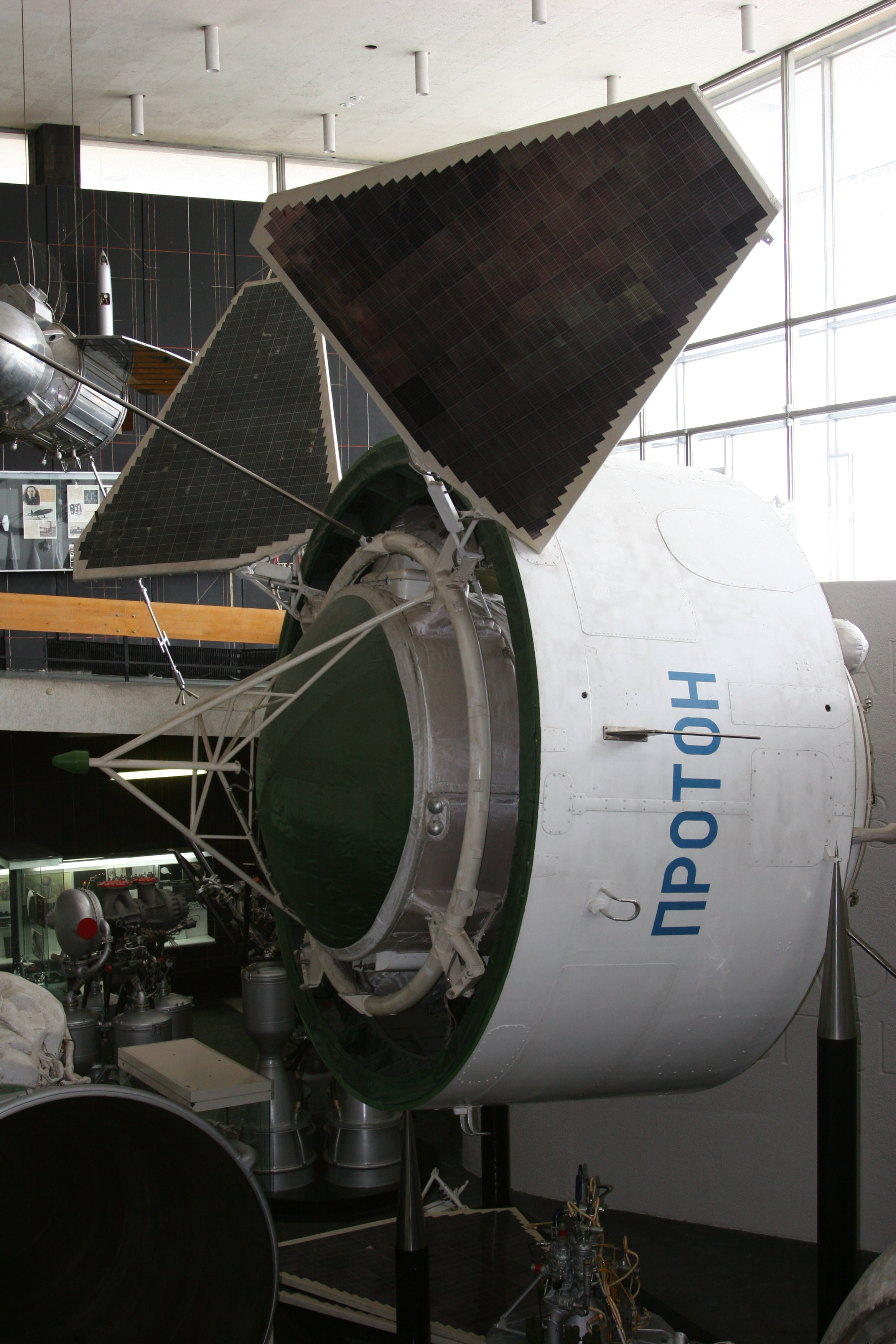 Proton satellite (two solar panels dismantled to fit into the hall)